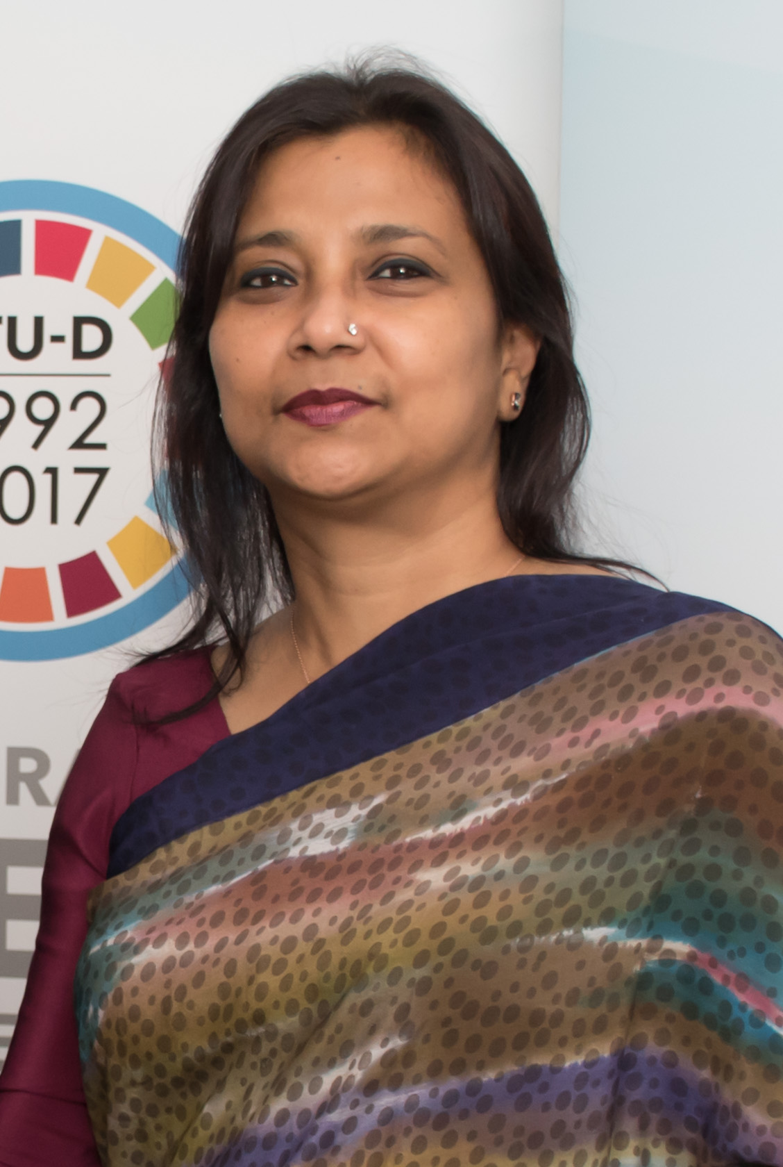 Mr. Houlin Zhao, ITU Secretary-General with Honourable State Minister Ms. Begum Tarana Halim, Ministry of Posts, Telecommunications and Information Technology, Bangladesh. WTDC-17 Buenos Aires, Argentina. ITU/D.Woldu